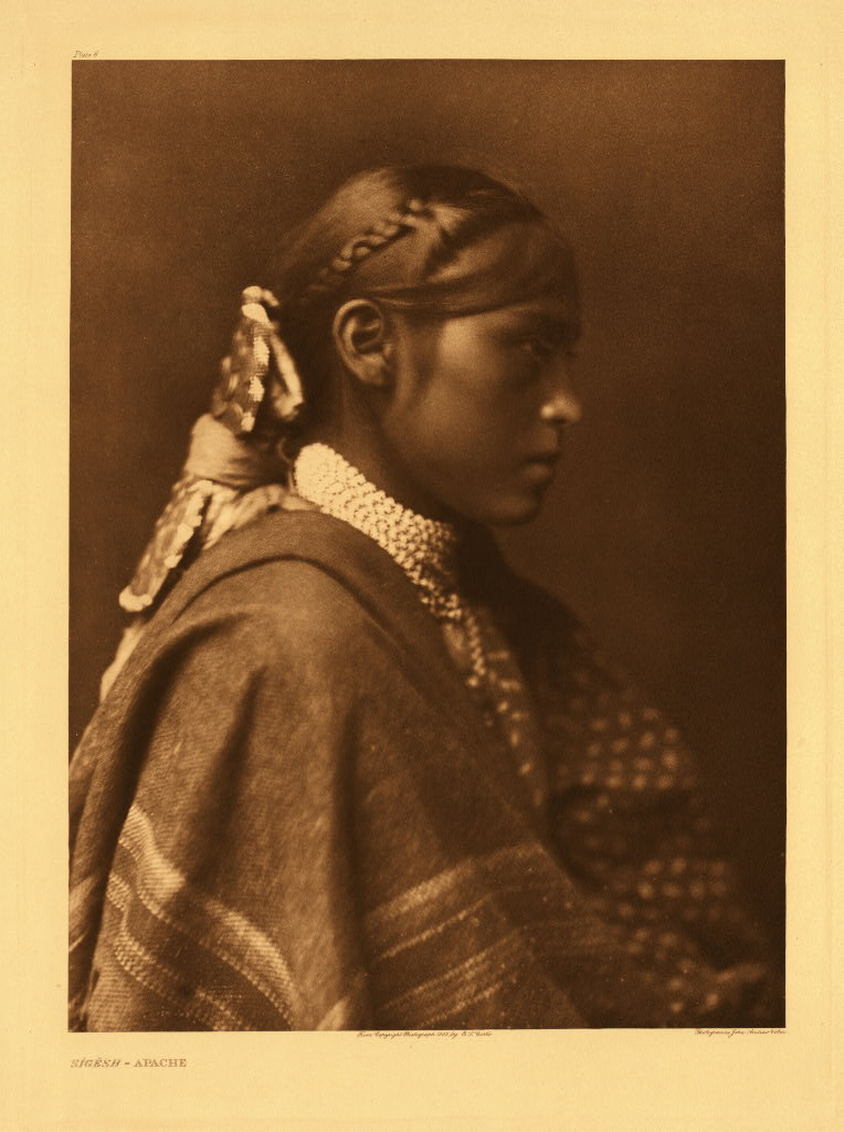 Sigesh, an unmarried Apache woman, circa 1905. Her hairstyle and ornament were characteristic of Apache girls then. Edward S. Curtis photo.